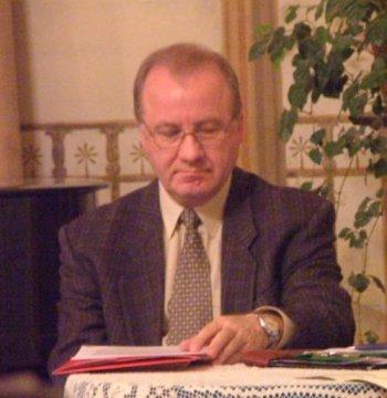 Stanisław Janke - kashubian writer. Wejherowo, 20. december 2006.